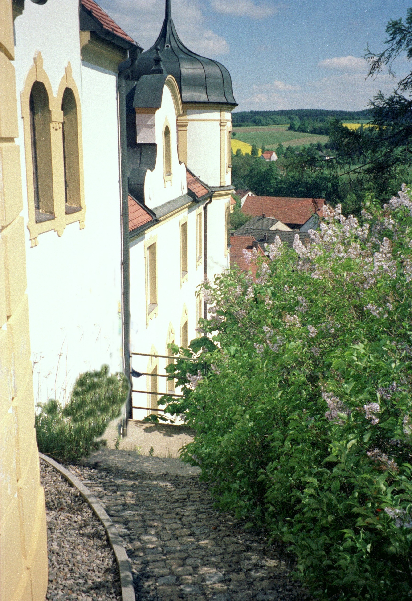 Pleystein, at the Kreuzberg monastery